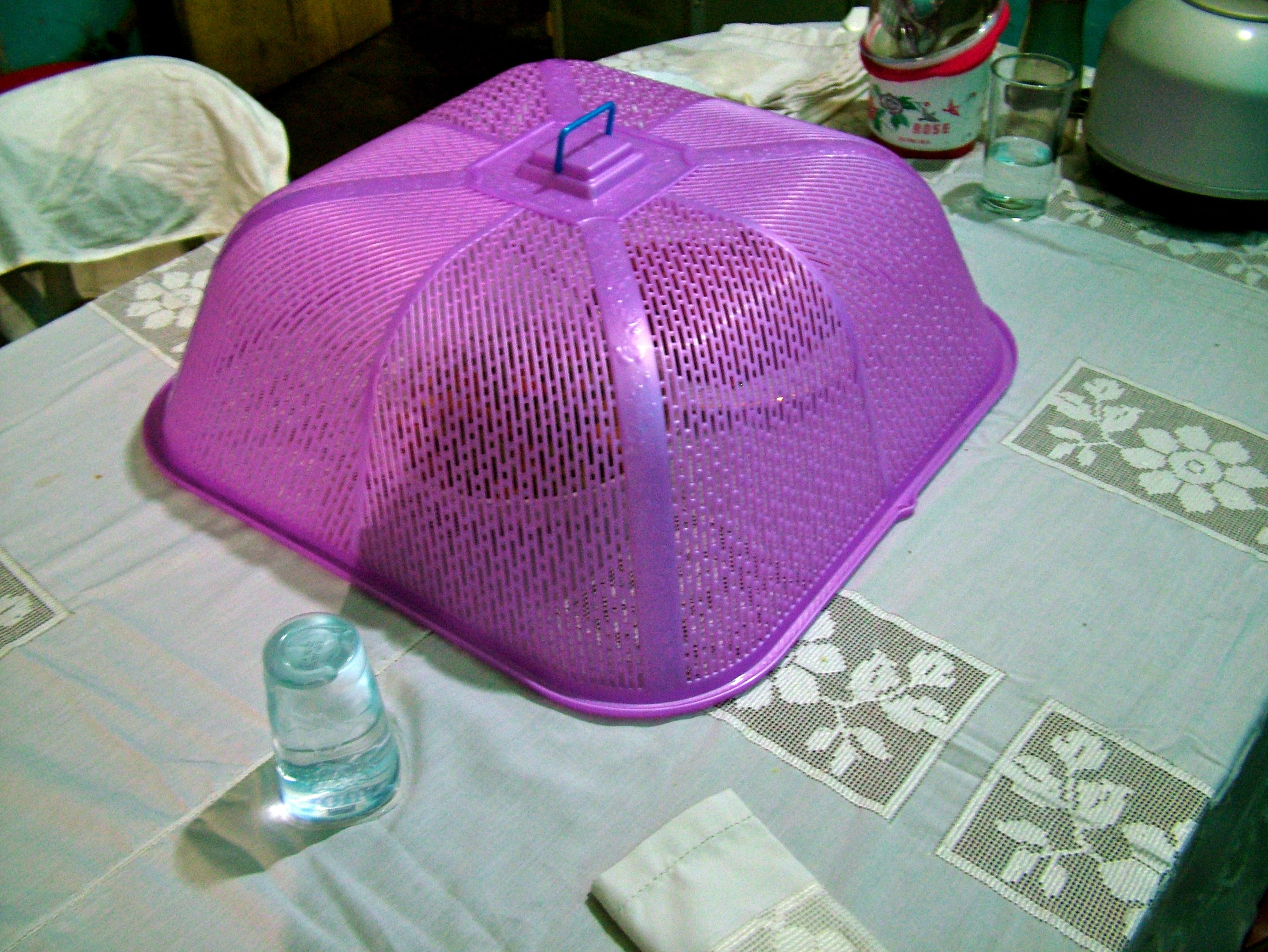 Indonesian dining table. The food's ready, but we're not. So a cover is placed over the dishes to keep the flies away until we're ready to eat.